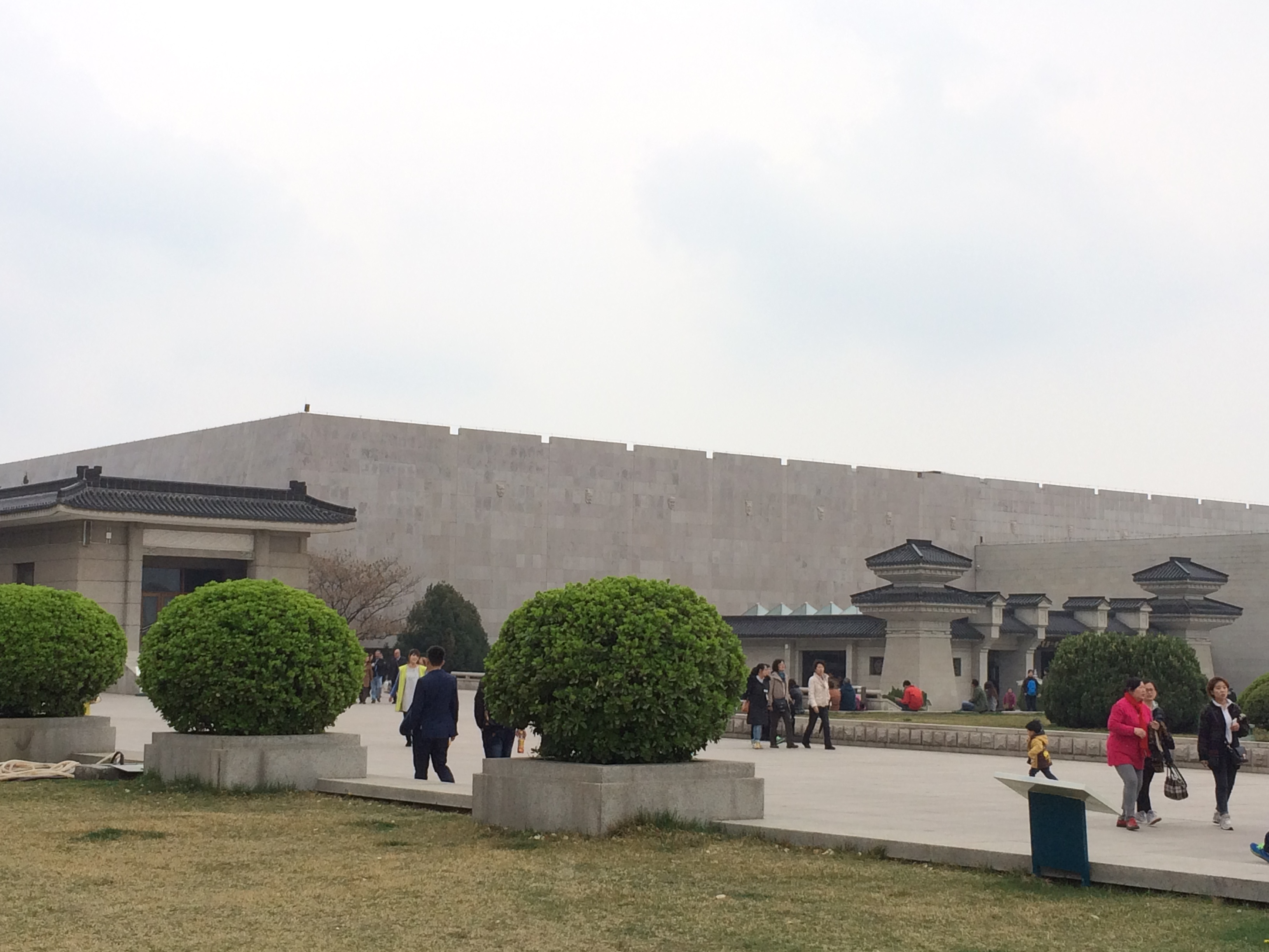 Terracotta warriors museum, Xi'an, China